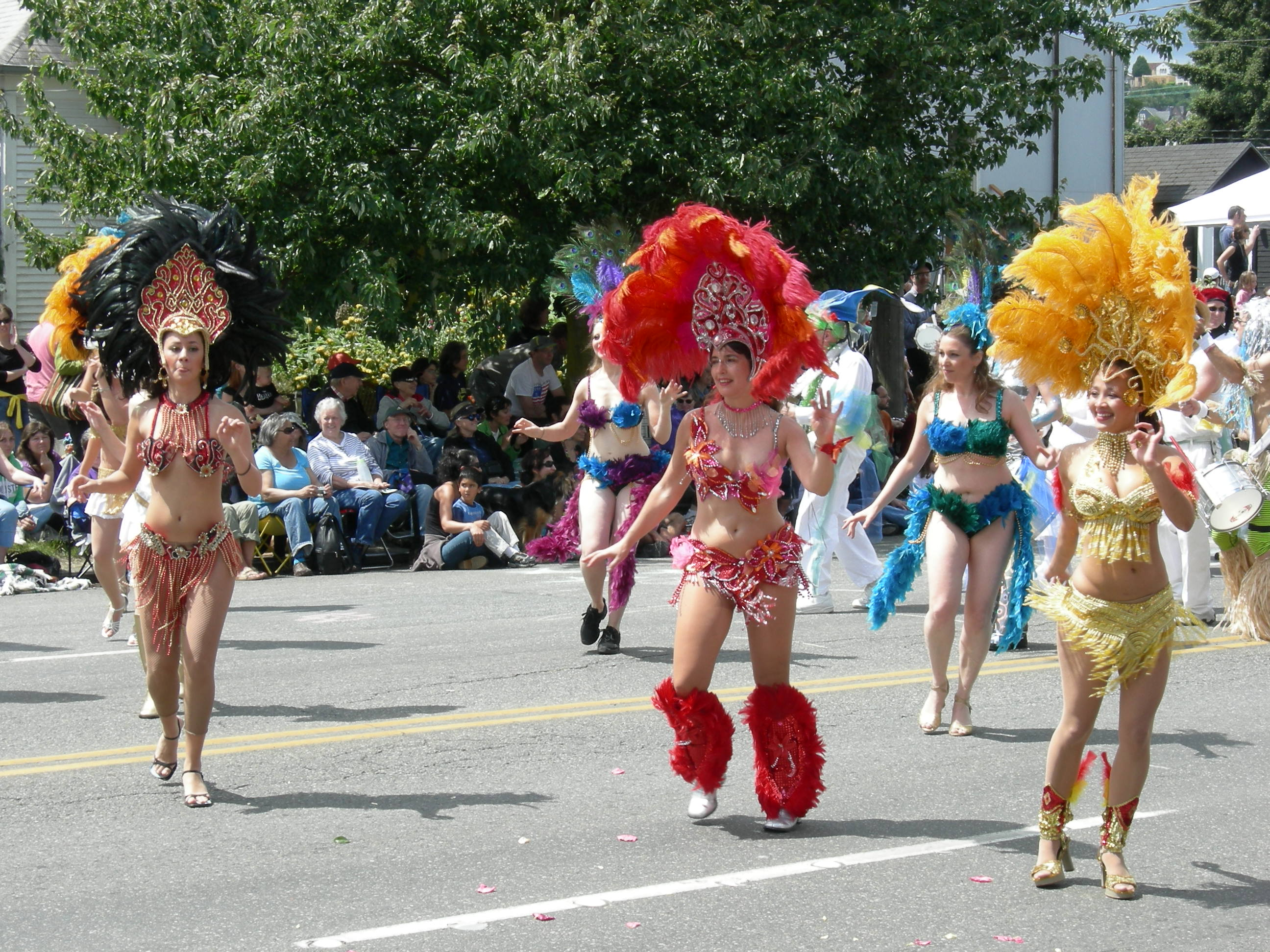 Samba dancers near the front of the 2007 Summer Solstice Parade, Fremont Fair, Seattle, Washington.